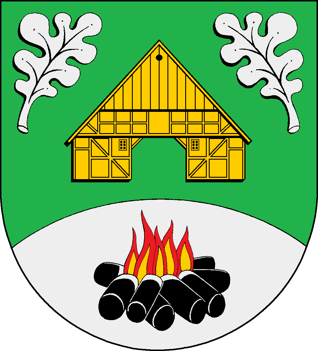 Coat of arms of the municipality Tüttendorf in Schleswig-Holstein, Germany.